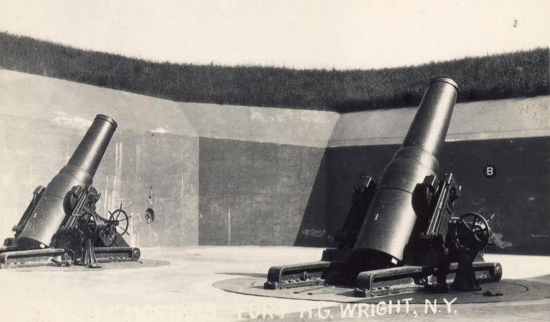 This photo was taken (probably about 1915) by Adelard T. LeGere, Post Photographer for Fort H.G. Wright, on Fishers Island, NY, across Long Island Sound from Groton, CT. It shows a two-mortar pit at Battery Clinton. The perspective of the photo emphasizes the depth of the pits and the angle to which the mortars had to be elevated (over 45 degrees) in order to fire over the pit wall. Note the open space between the two mortar circles, characteristic of later, post-Abbot Quad mortar installations. The photo is from the collection of Matt Edwards, and was made available on the web by the Coast Defense Study Group, through its Forums.